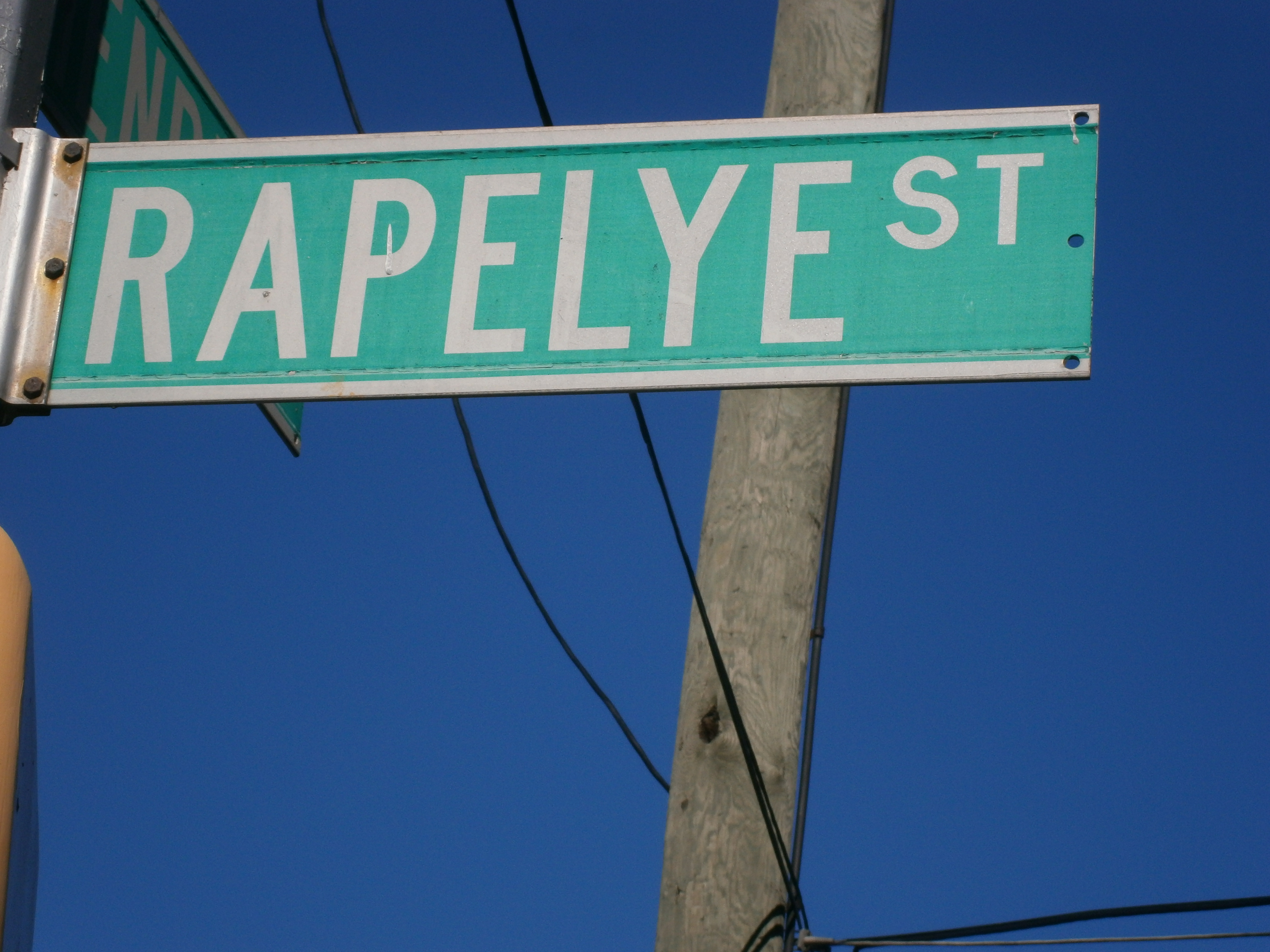 Rapelye Street sign Red Hook/Carroll Gardens Brooklyn